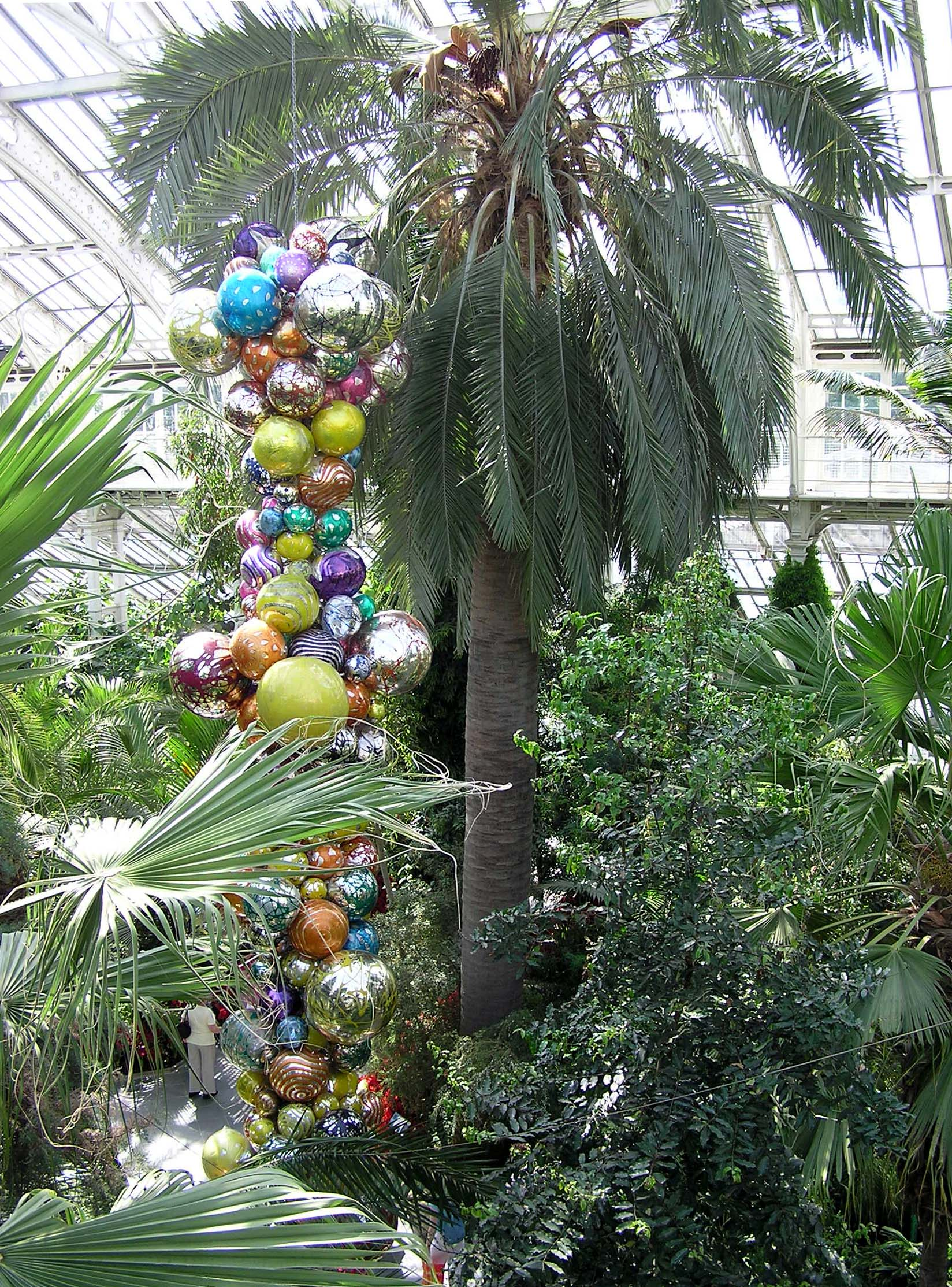 Chilean Wine Palm Jubaea chilensis in the Temperate House at Kew Gardens, London. Raised from seed in 1846 this is the world’s tallest greenhouse plant at 52 feet (16 metres) in 2004, and still growing. A replacement is being grown nearby, ready for when the plant no longer fits into the roof space. The scale can be gauged from the visitor at its foot. The tree is harvested for sap which can be fermented to make palm wine or a syrup. The glass sculpture is part of a temporary exhibition at Kew of the works of Dale Chihuly. The glass will be removed in January 2006. Taken by Adrian Pingstone in June 2005 and released to the public domain.